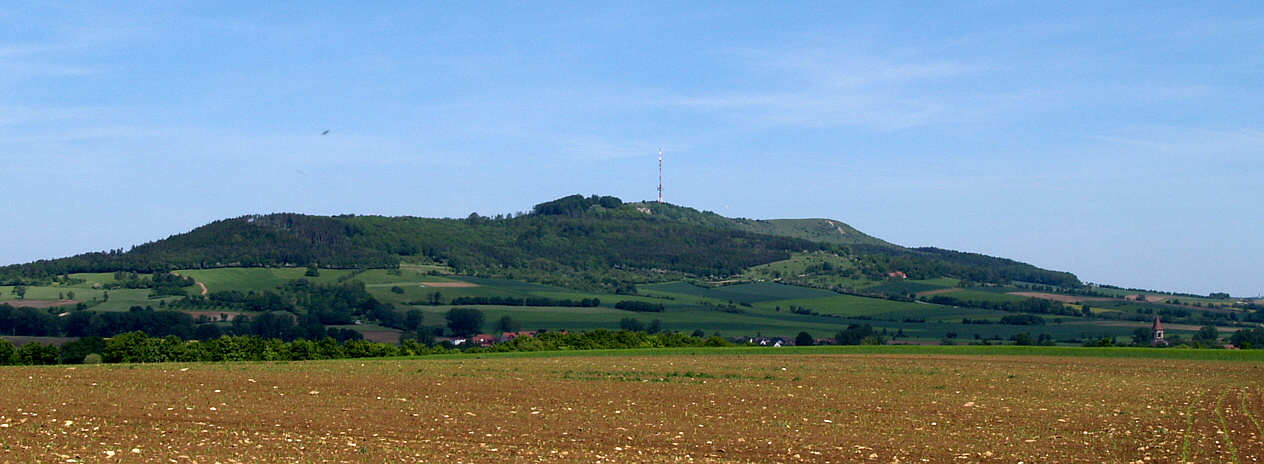 Hesselberg hills, Bavaria, Germany, viewed from west